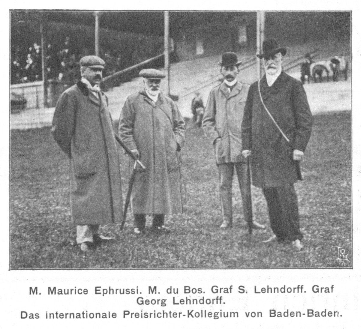 Group portrait of Maurice Ephrussi (1849-1916), M. du Bos, Siegfried Graf Lehndorff (1869-1956) and Georg von Lehndorff (1833-1914), members of a referee committee at a horse racing track in Baden-Baden.